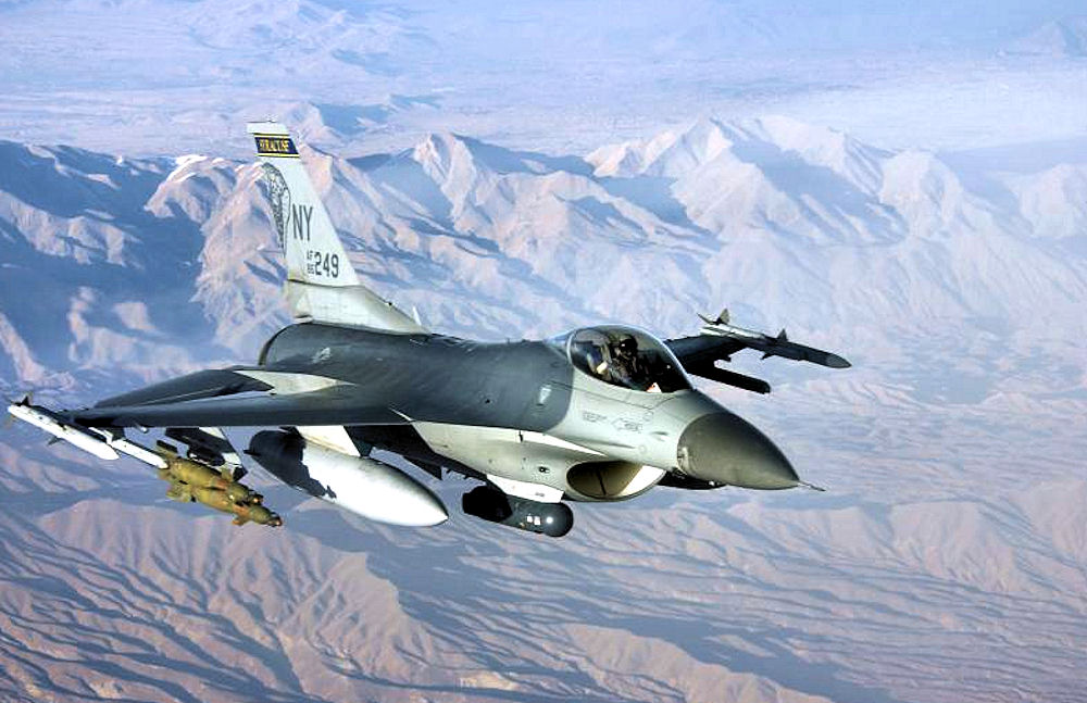 USAF F-16C block 30 #86-0249 from the 138 FS in flight over Afghanistan in support of OEF on November 29th, 2003. The F-16 is armed with AIM-120A AMRAAM on each wing tip, a pair of GBU-12 500-pound bombs (left), a 370-gallon tank. It also has a AN/AAQ-28(V) Litening AT targeting pod under the intake. [USAF photo by SSgt. Suzanne M. Jenkins]